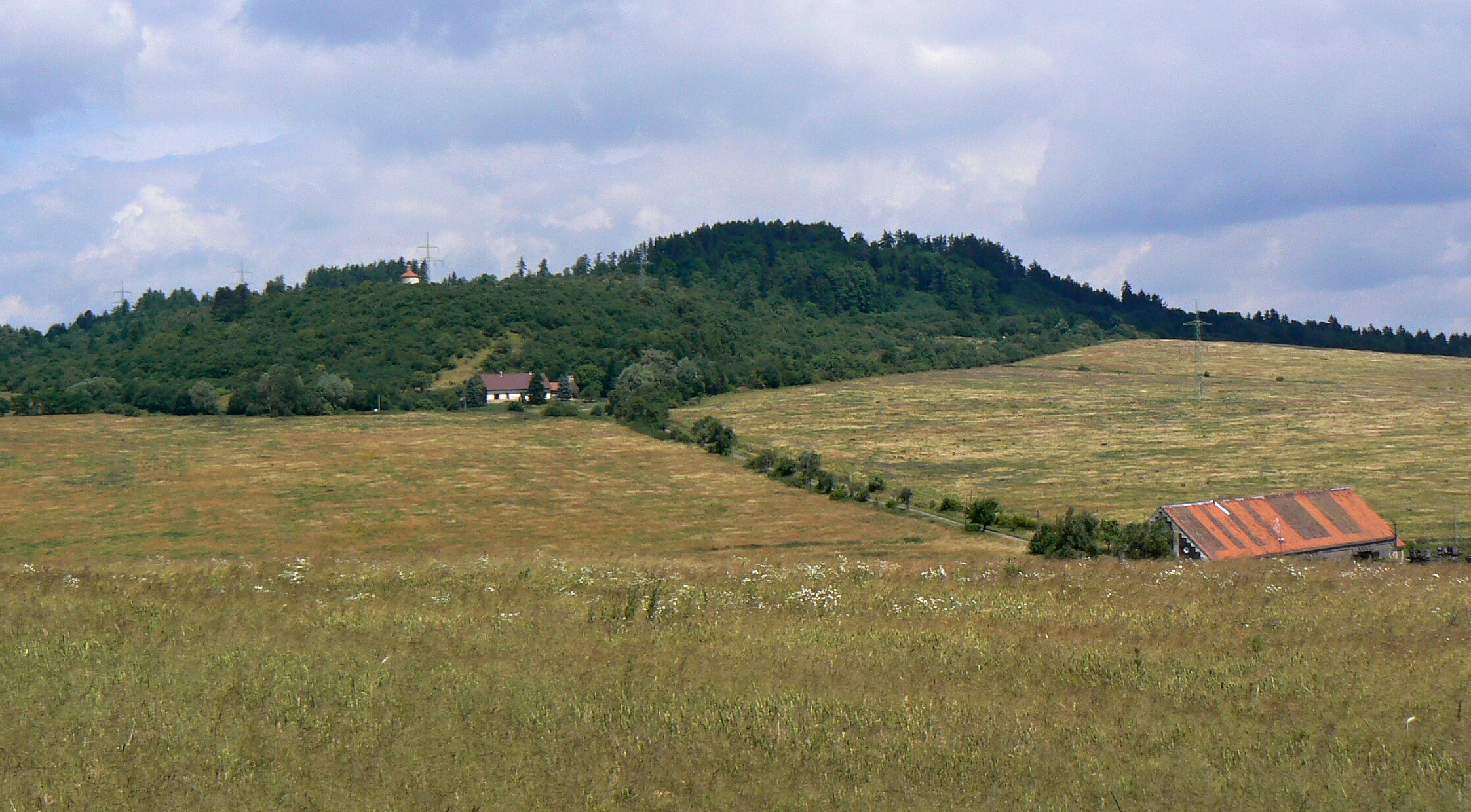 Ovčí vrch (697 m) near Kokašice in Tachov District